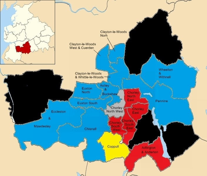 Chorley 2006